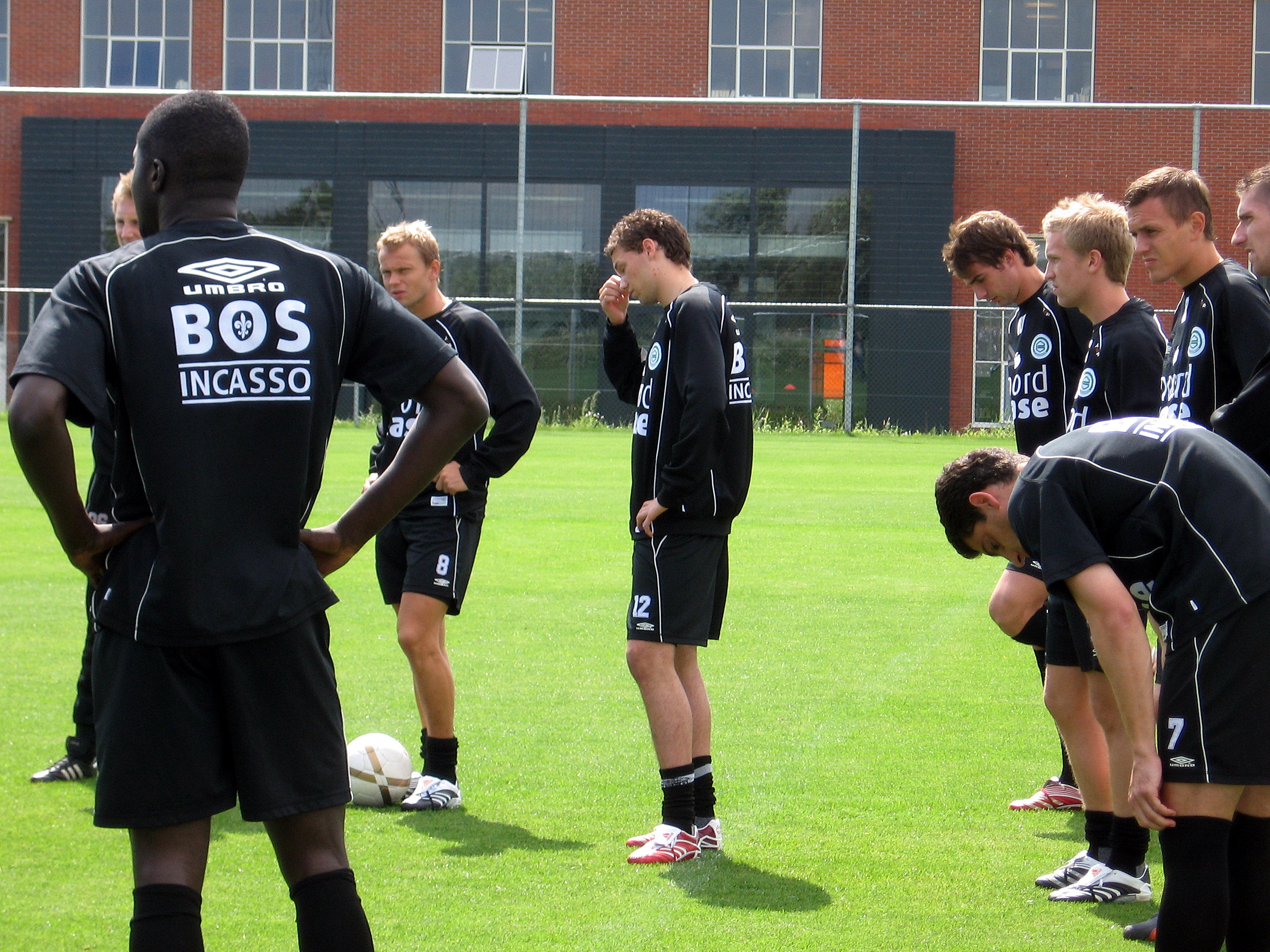 FC Groningen-football player Marcus Berg on his first training with FC Groningen on the 'Trainingscomplex Noord-Nederland'.